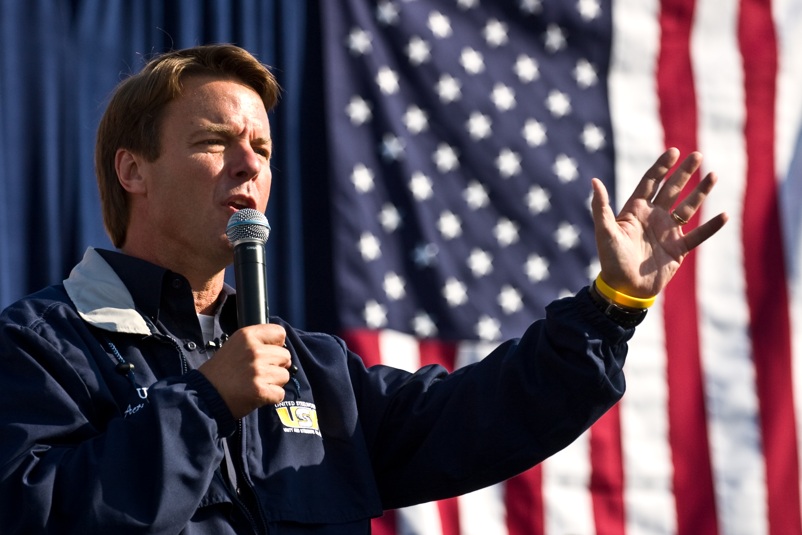 2008 United States Presidential candidate John Edwards campaigning in Pittsburgh on Labor day in 2007, accepting the endorsement of the United Steelworkers and the United Mine Workers of America.